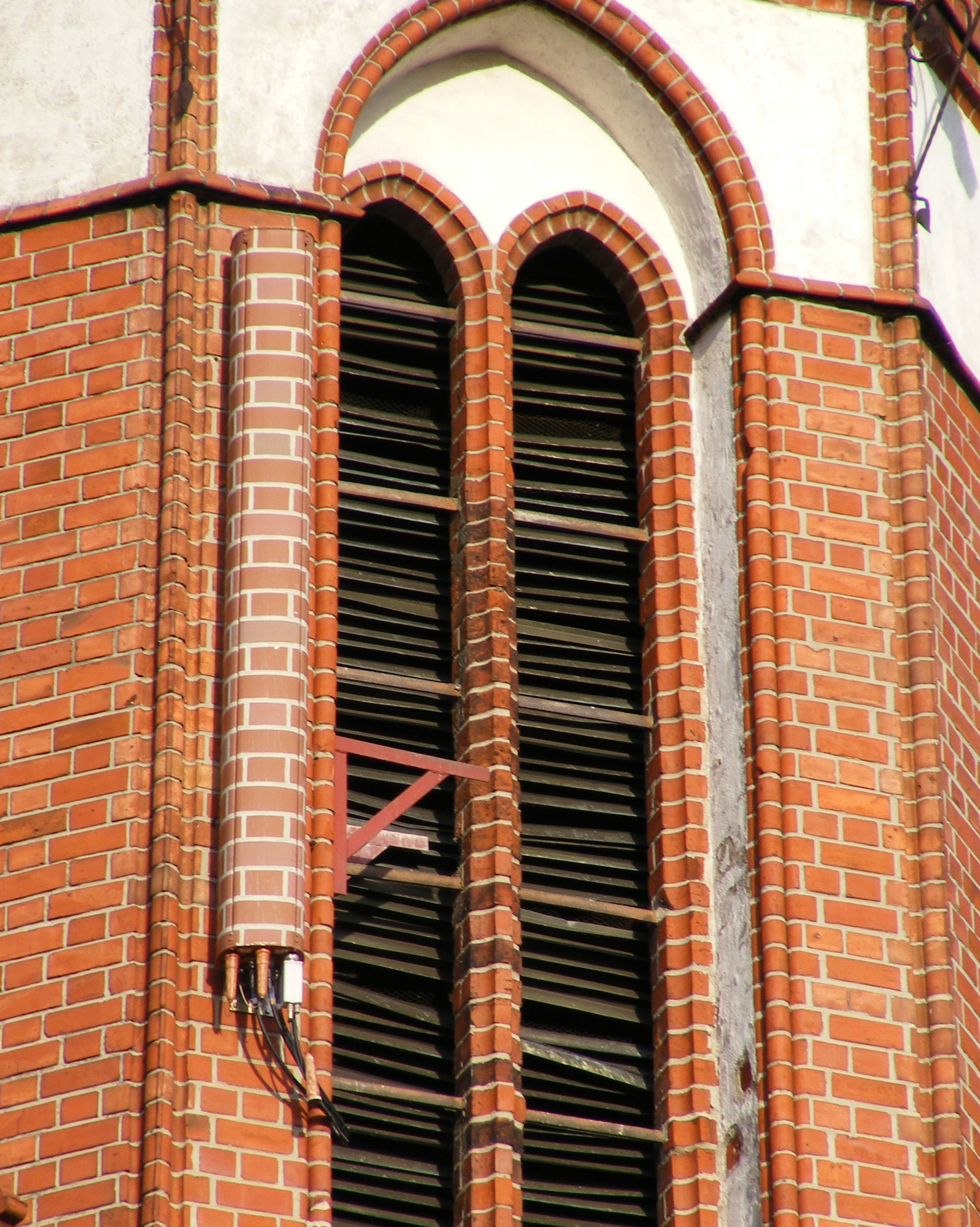 BTS & Node B antenna placed on one of the Churches in Sopot, Poland on the left side zoom on the antenna on the right overall view of the church